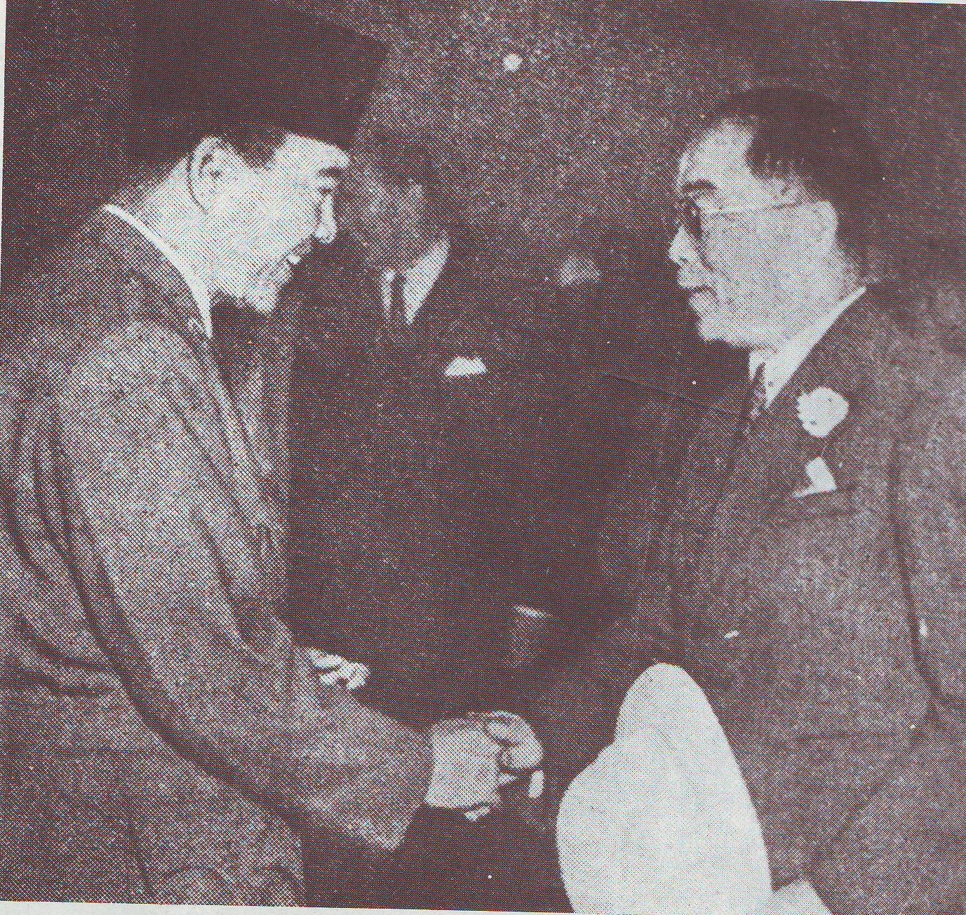 President Soekarno meets President of Union of Burma, Sao Shwe Thaik, during his visit to Yangon on January 1950.